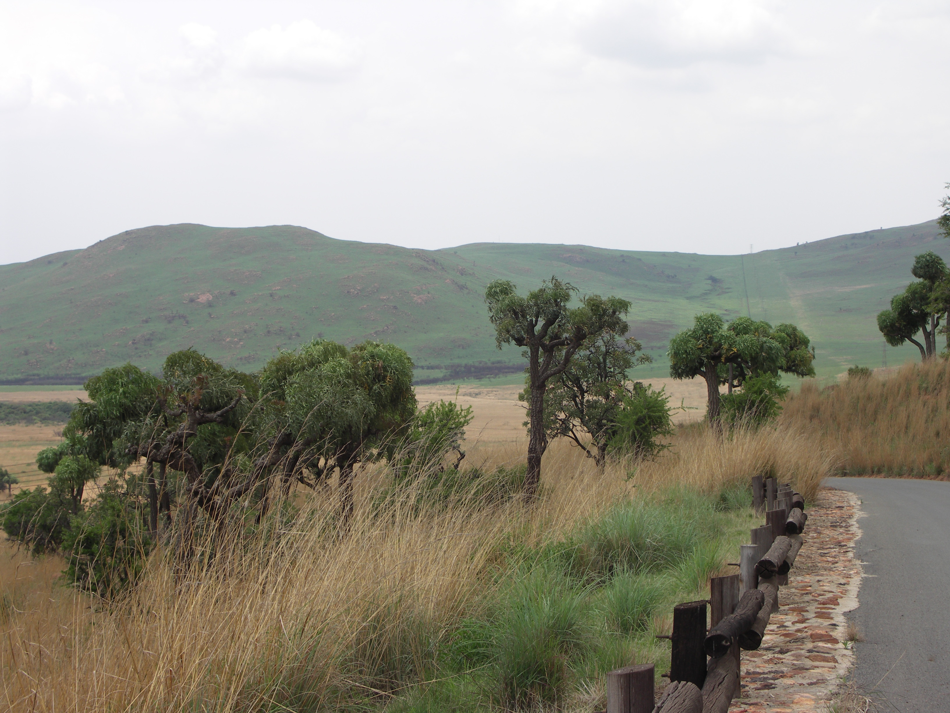 Highveld cabbage tree (Cussonia paniculata) at Suikerbosrand Nature Reserve, Gauteng, South Africa